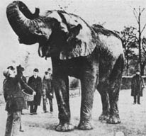 Pre-1886 photo of Jumbo.